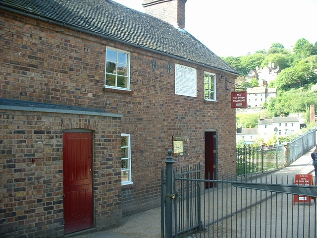 The bridge tollhouse A charge was made for crossing the river. The tollhouse on the south side of the river is now a small museum and shop.